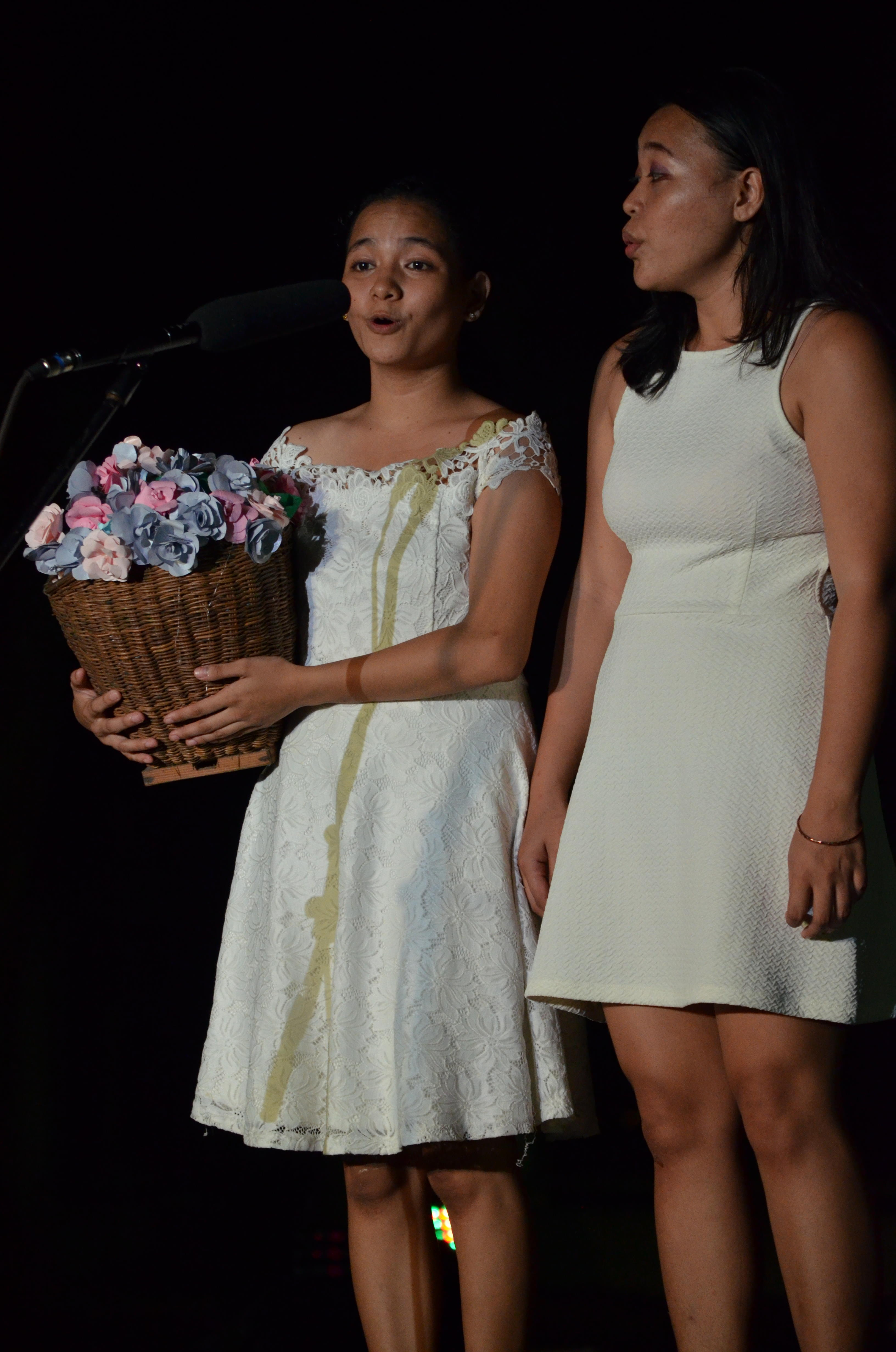 Performance during the staging of Lunop han Dughan at University of the Philippines Visayas Tacloban College in 2019